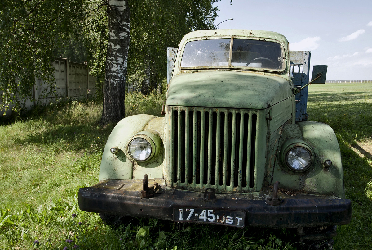 I met the friend, the old friend! It is the GAZ-51 car. My very first car! Original state numbers to 1980г. Original optics.